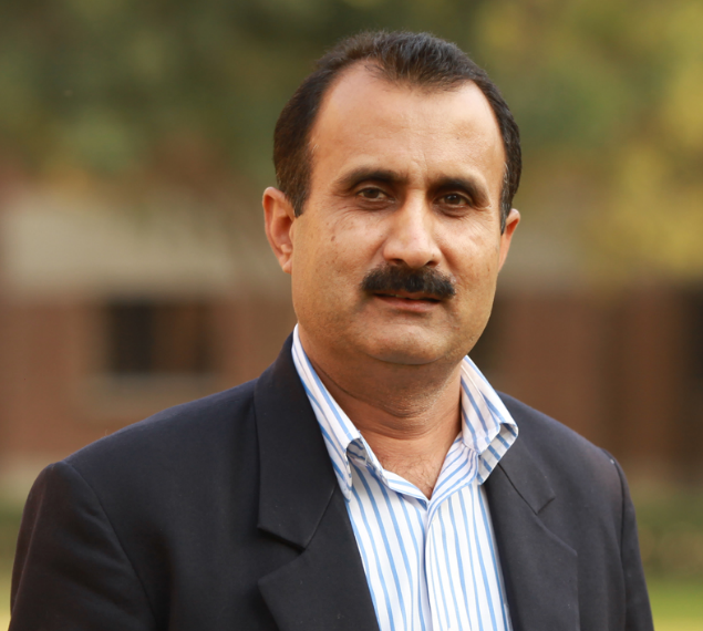 Location: LUMS, Lahore, Pakistan. CC Licence: This work is licensed under a Creative Commons Attribution 4.0 International License .